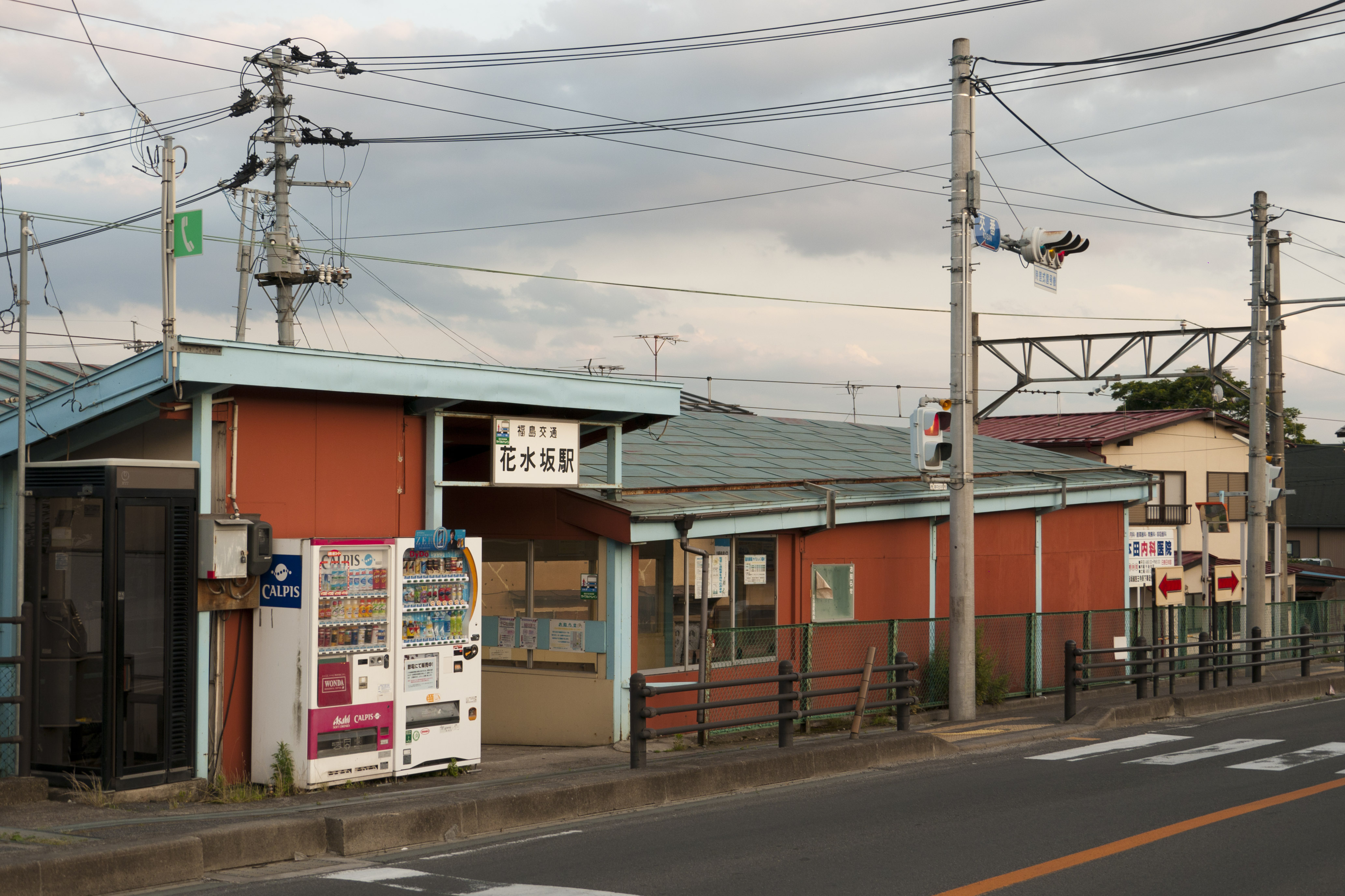 Fukushima Kotsu Iizaka Line Hanamizuzaka Station in Fukushima, Fukushima, Japan